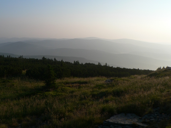 Medvedska hornatina, NE part of the Hruby Jesenik mountains, Czech republic.